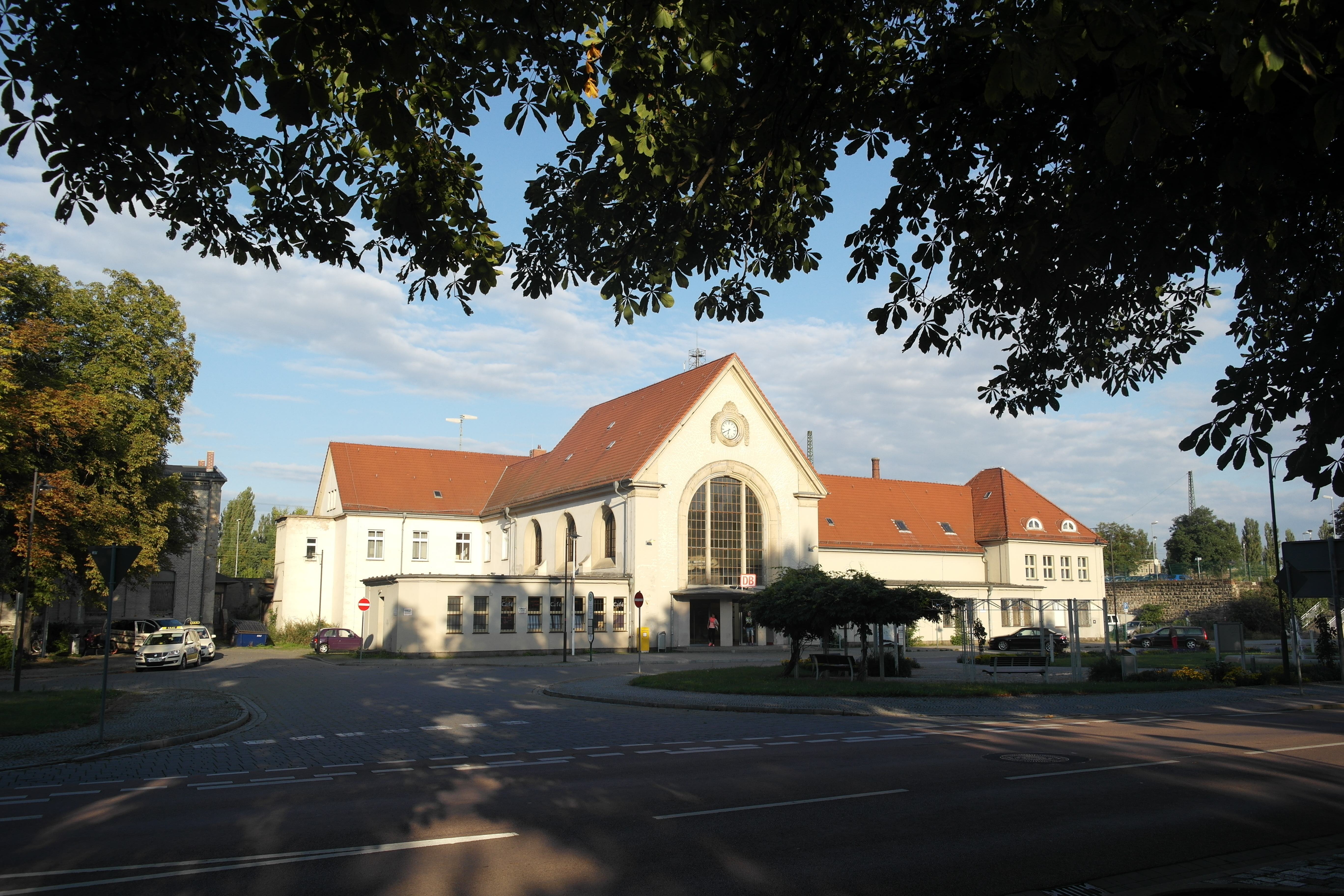 The recent station bulding in Köthen was built arount 1915. The building is part of sequences of station buildings from different epoches wich is unique for Gernamy. View from station square.